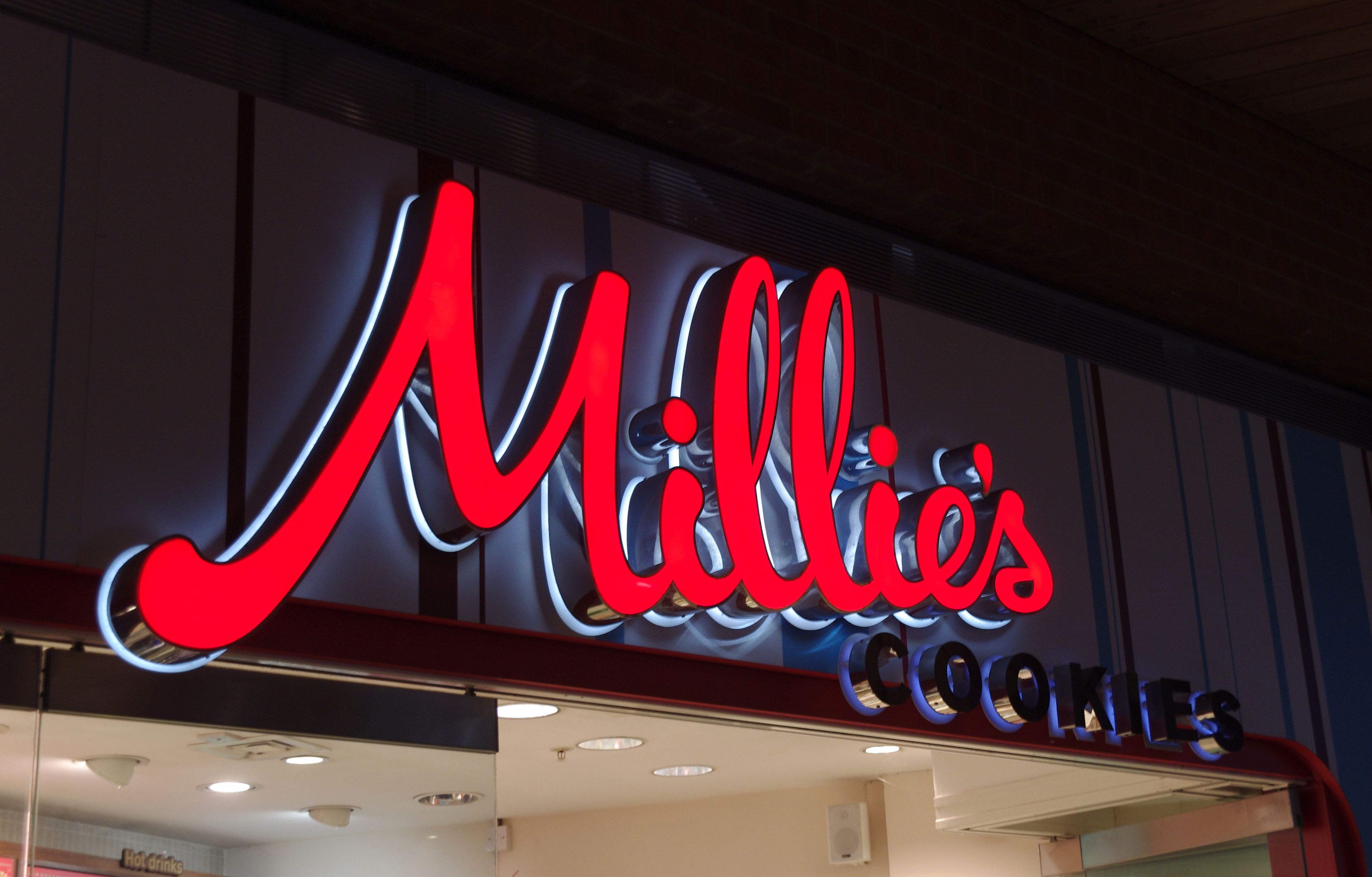 Millie's Cookies in Concorde street in the Cabot Circus shopping centre, Bristol.